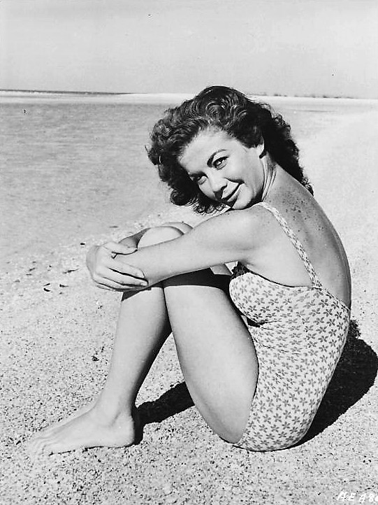 Publicity photo of Israeli actress Chana Eden.